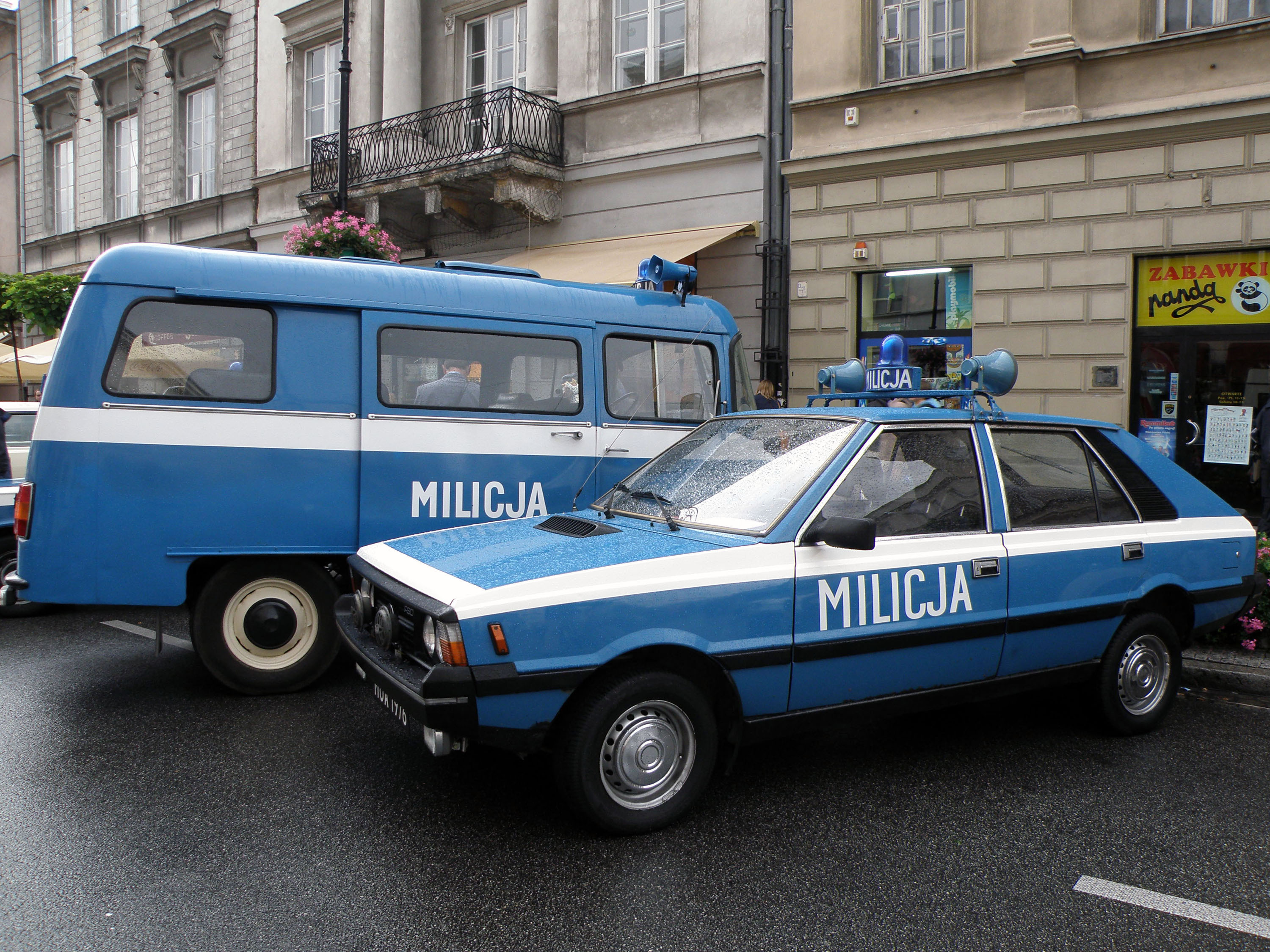 Restored FSO Polonez MR'83 and Nysa 522 RSD of Citizens' Militia of Polish People's Republic (of re-enacting group )